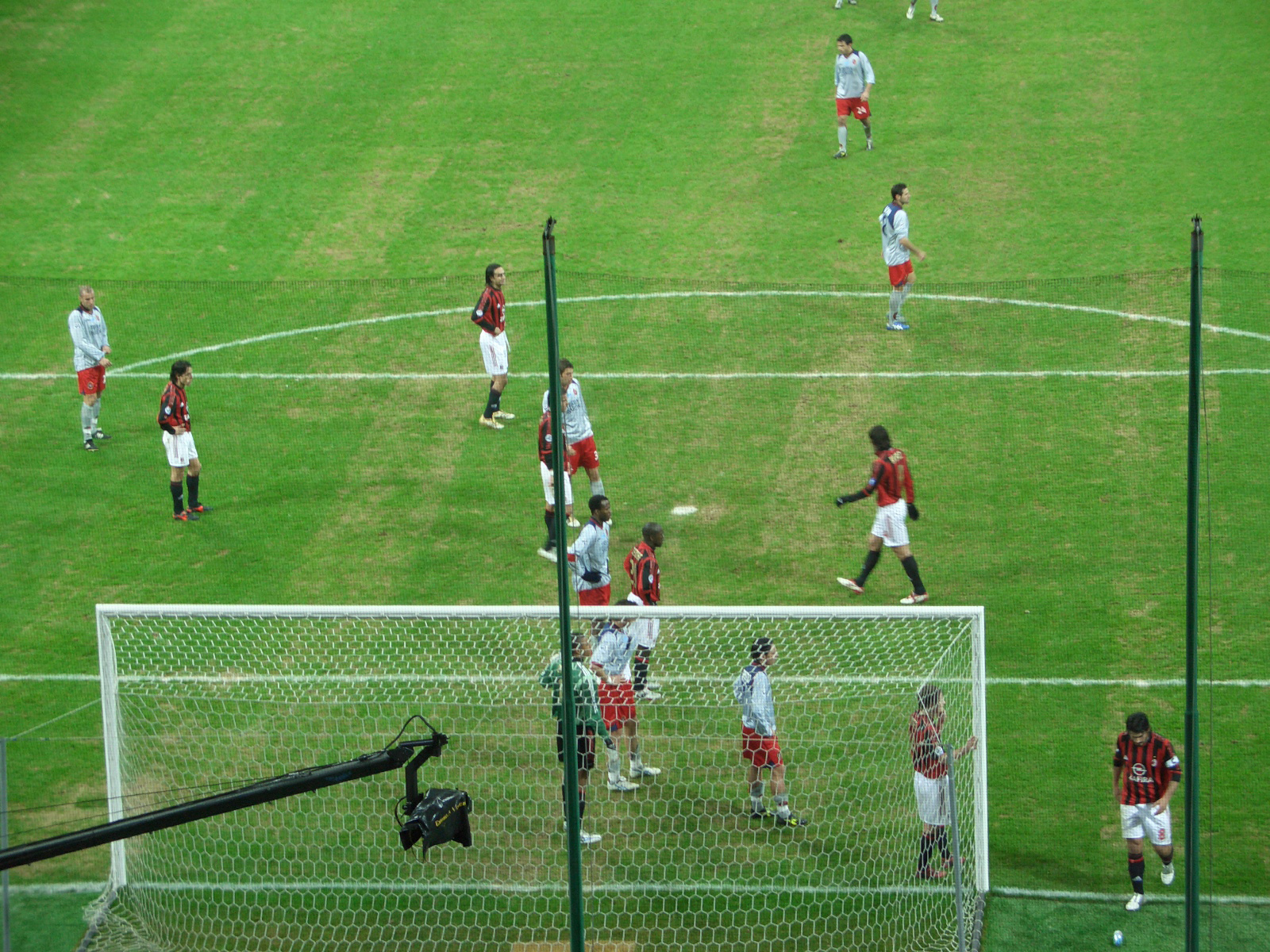 A.C. Milan's players